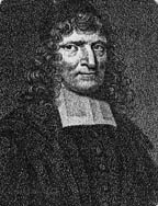 Samuel Annesley